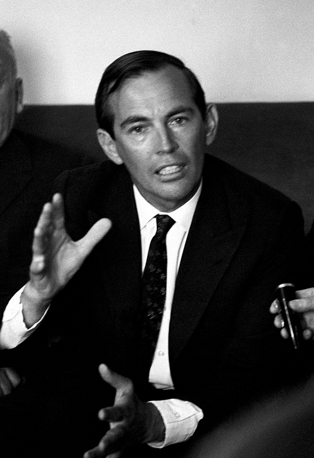 The heart surgeon Christiaan Barnard, sitting on a sofa; he is in Italy to participate in the international congress on the origins of sudden death and resuscitation therapies. Florence (Italy), January 1969.